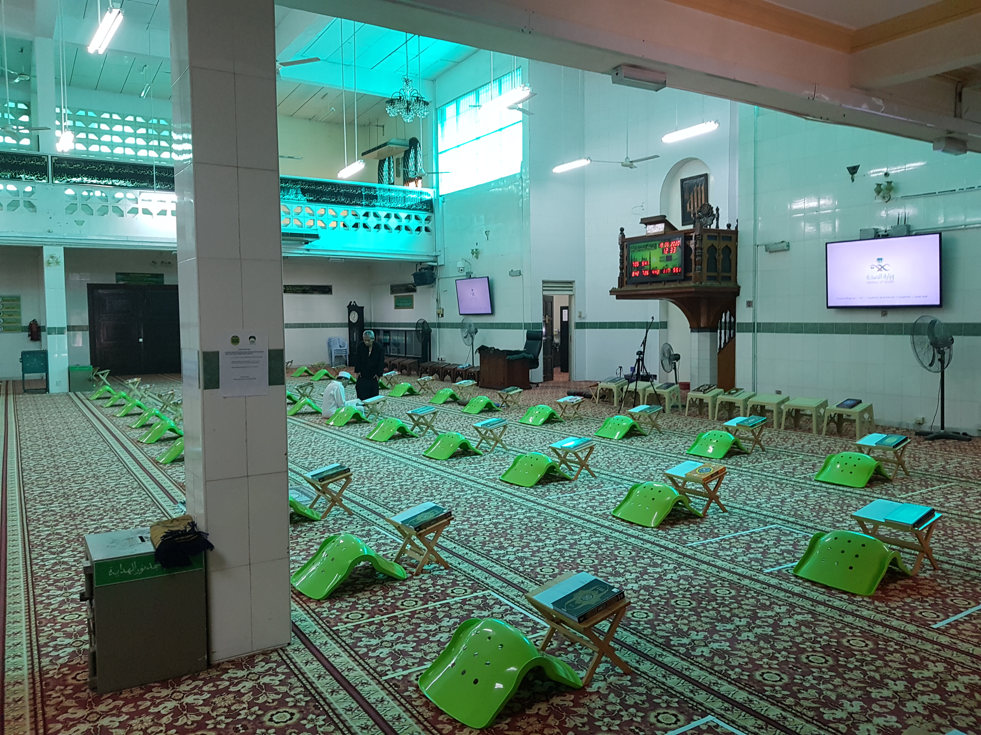 Praying spots for prayer attendees are marked with masking tapes and placed a metre away from each other during the Recovery Movement Control Order at the Kampung Pandan Dalam Nurul Hidayah Mosque, Selangor, Malaysia.